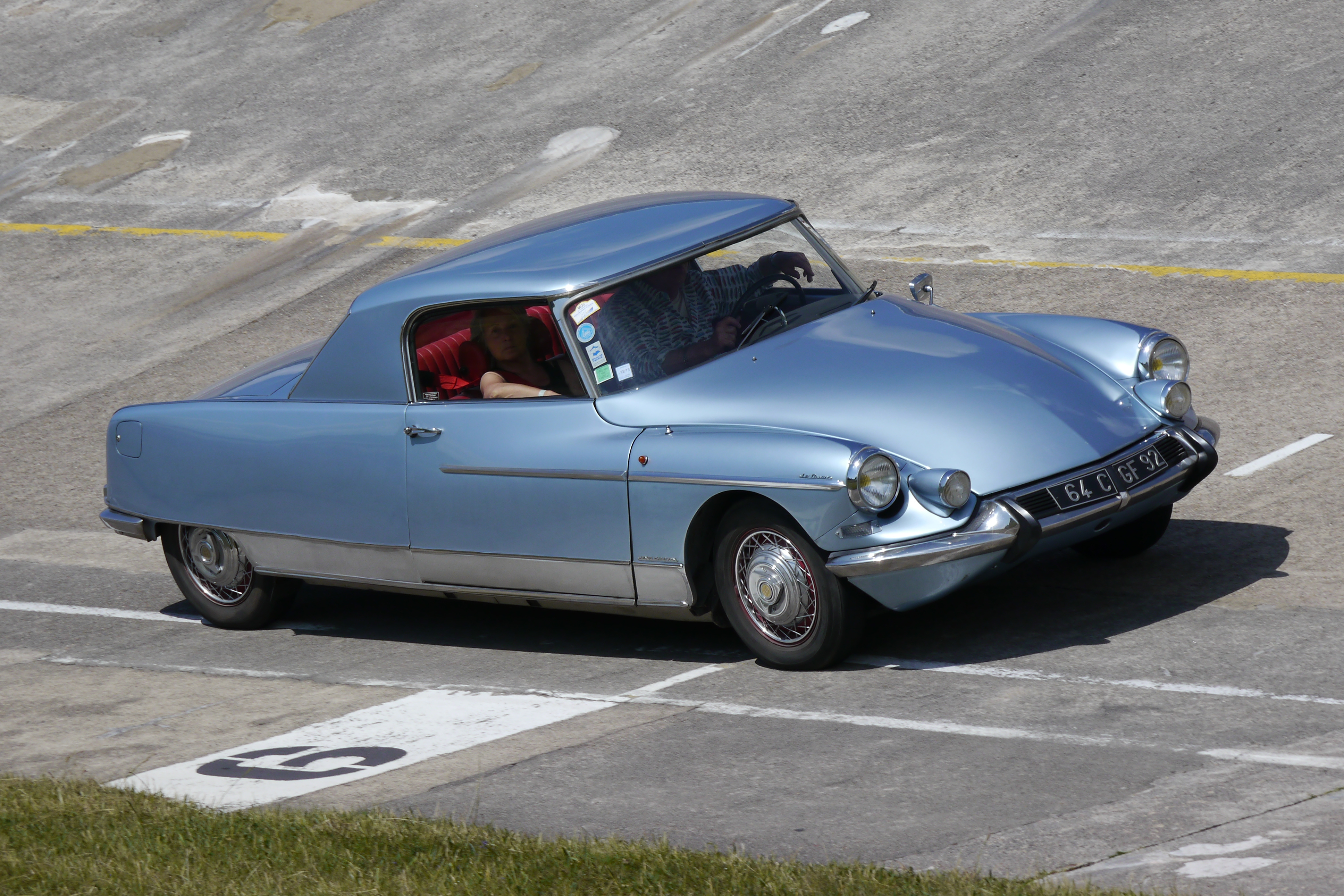 Chapron Dandy, Linas-Montlhéry